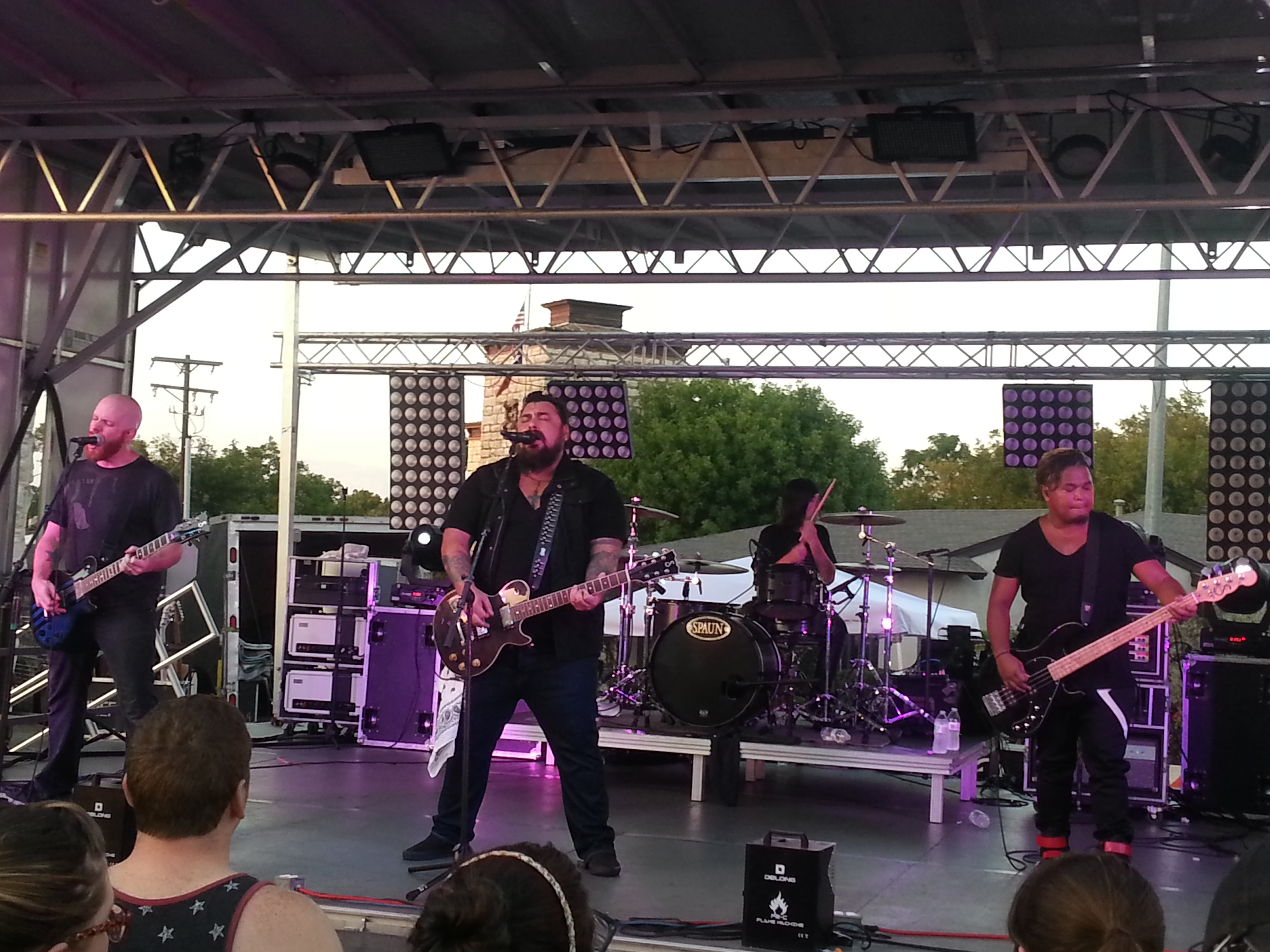 Seventh Day Slumber